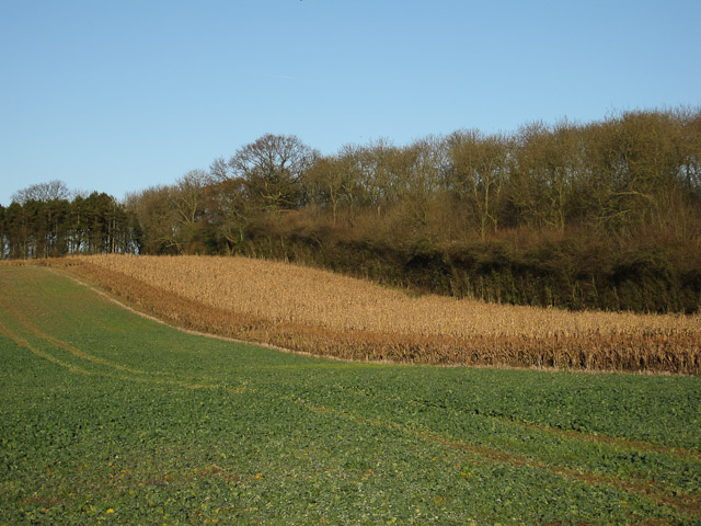 Game cover crop along Spring Plantation Maize and another species of plant grown as food and cover for partridges and pheasants that are reared in the woods for shooting.